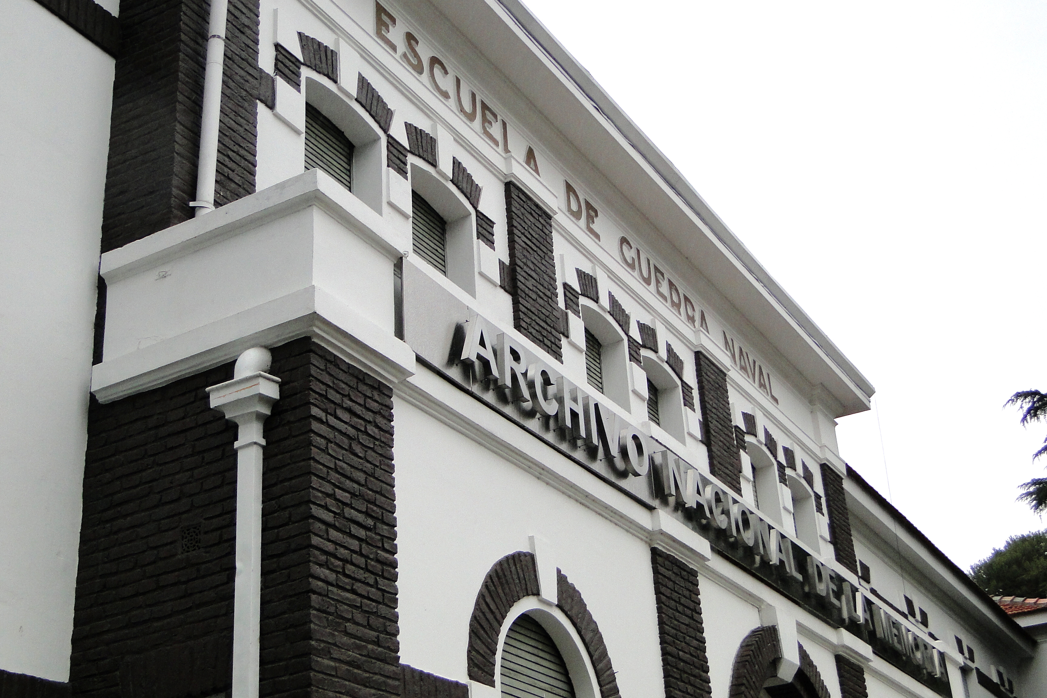 Escuela de Mecanica de la Armada ESMA - Detention and Torture Center - Buenos Aires - Argentina - 01